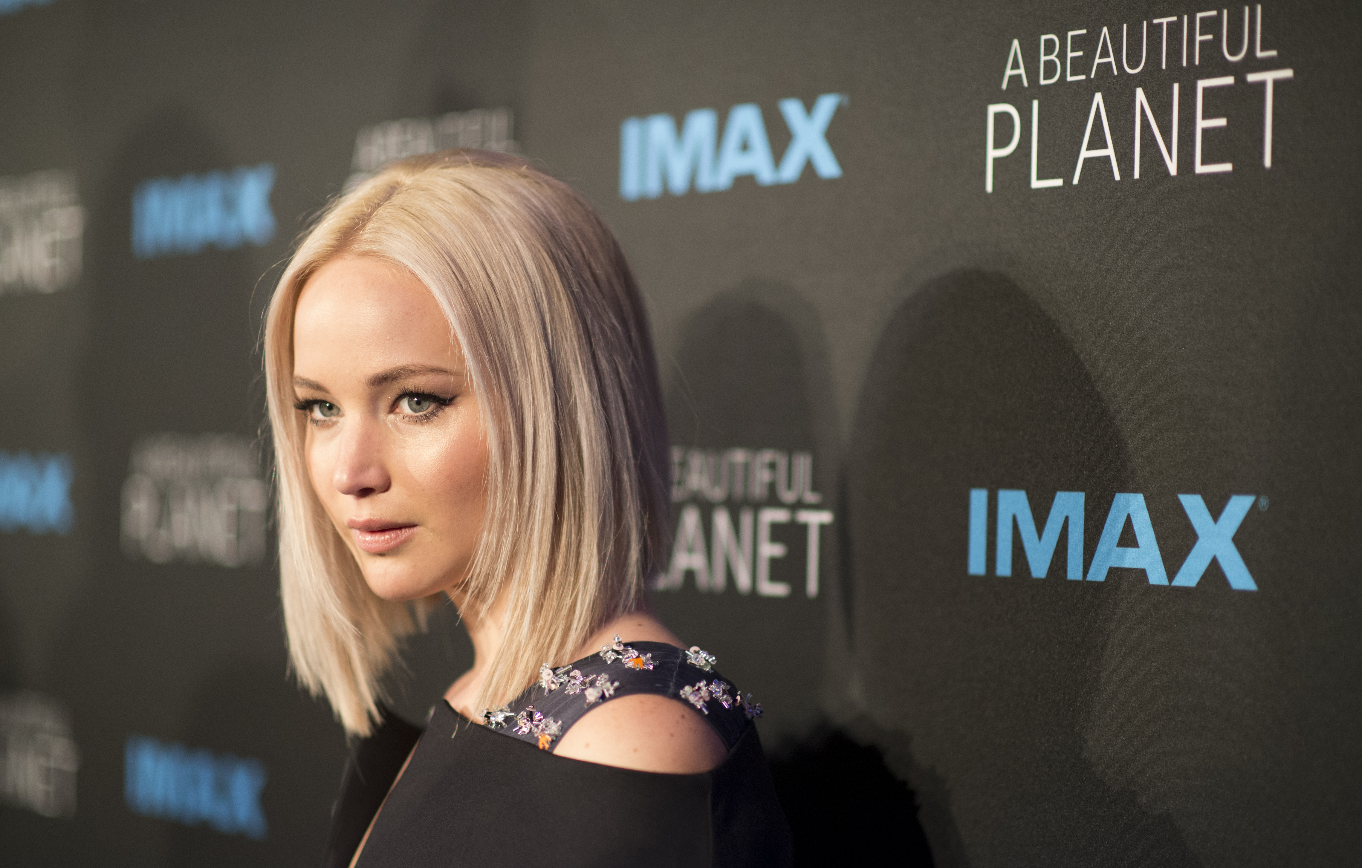 Jennifer Lawrence attends the world premiere of the IMAX film "A Beautiful Planet" at AMC Lowes Lincoln Square theater on Saturday, April 16, 2016 in New York City. The film features footage of Earth captured by astronauts aboard the International Space Station.